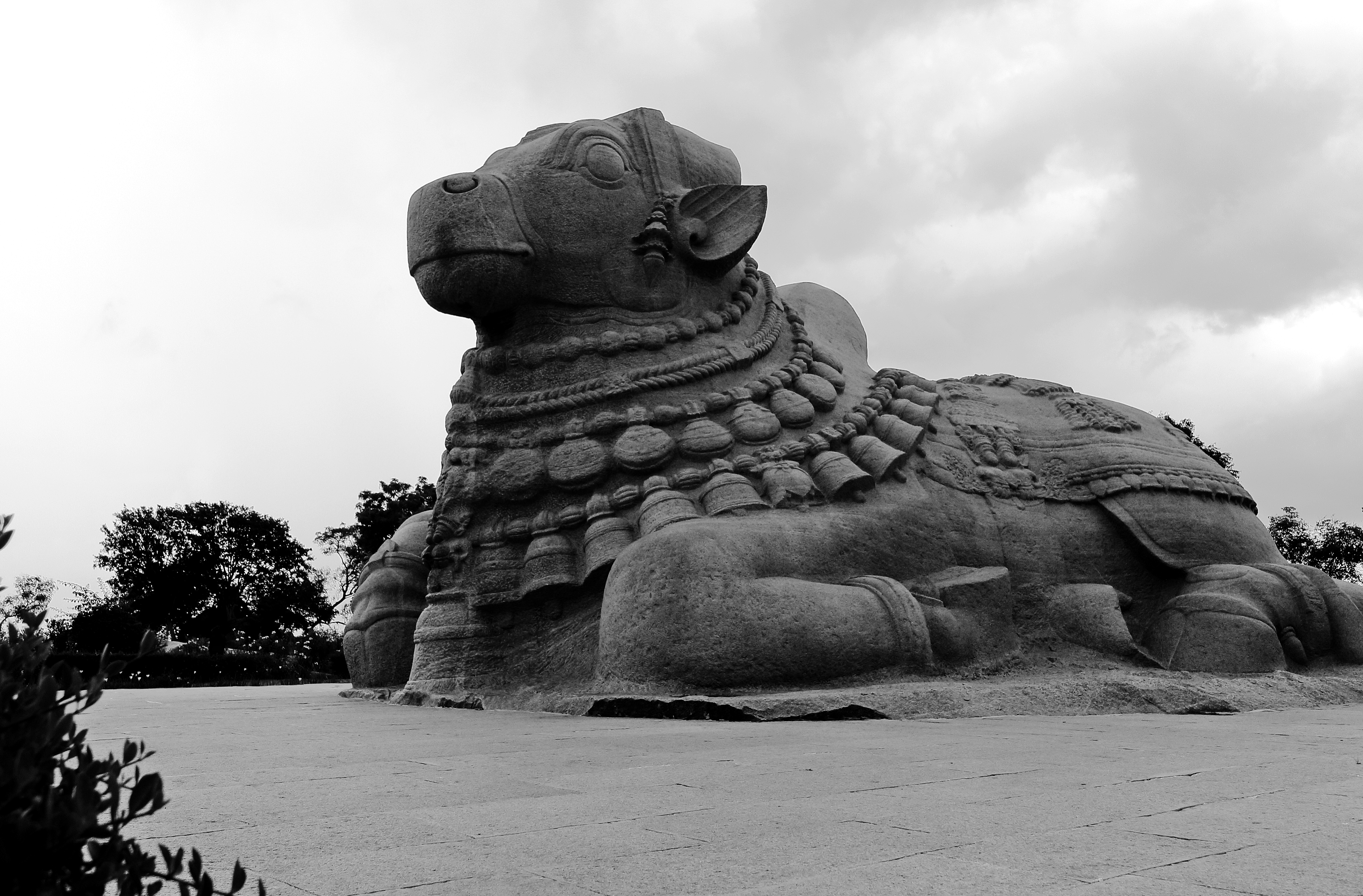 The Largest Monolithic Granite Nandhi of India (4.5m high and 8.23m long) at Lepakshi in its perfect seated posture